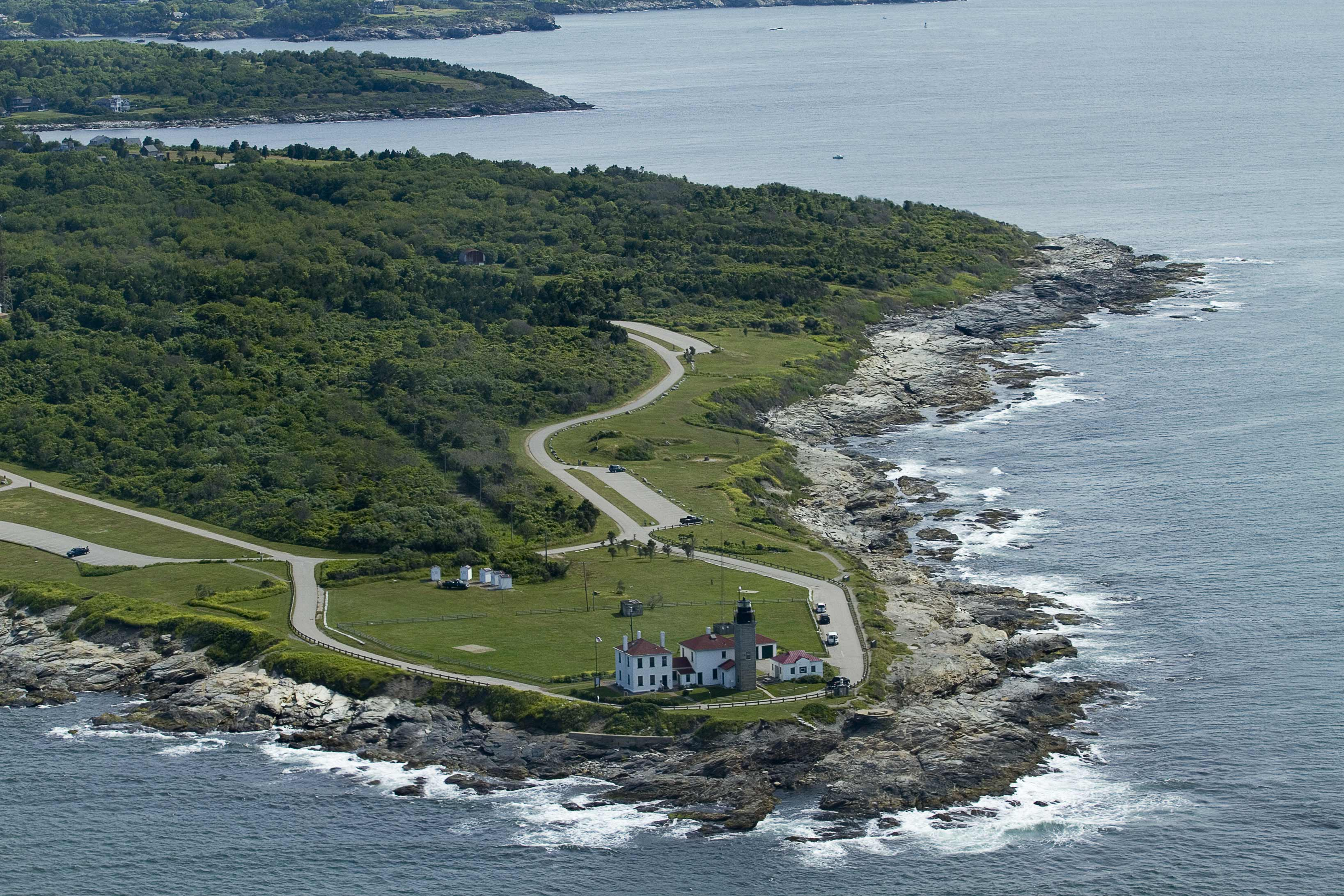 Beavertail Light